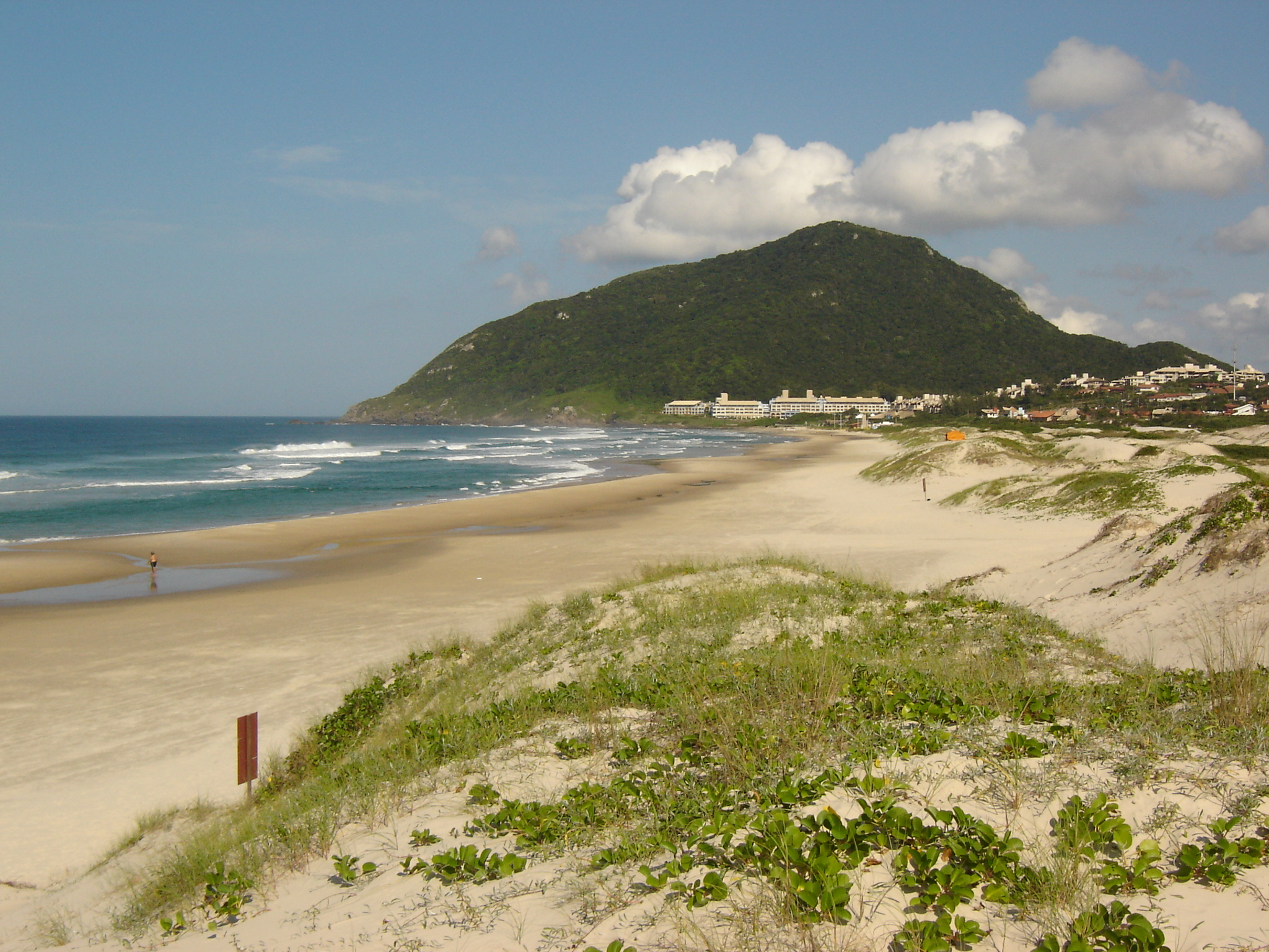 Santinho beach, Santa Catarina Island, Florianopolis, Brazil Costão do Santinho in the background